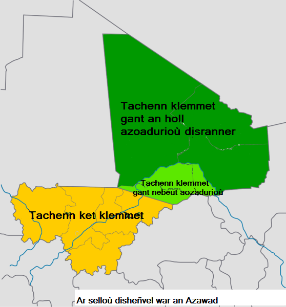 The different territories claimed by the separatist organisations.